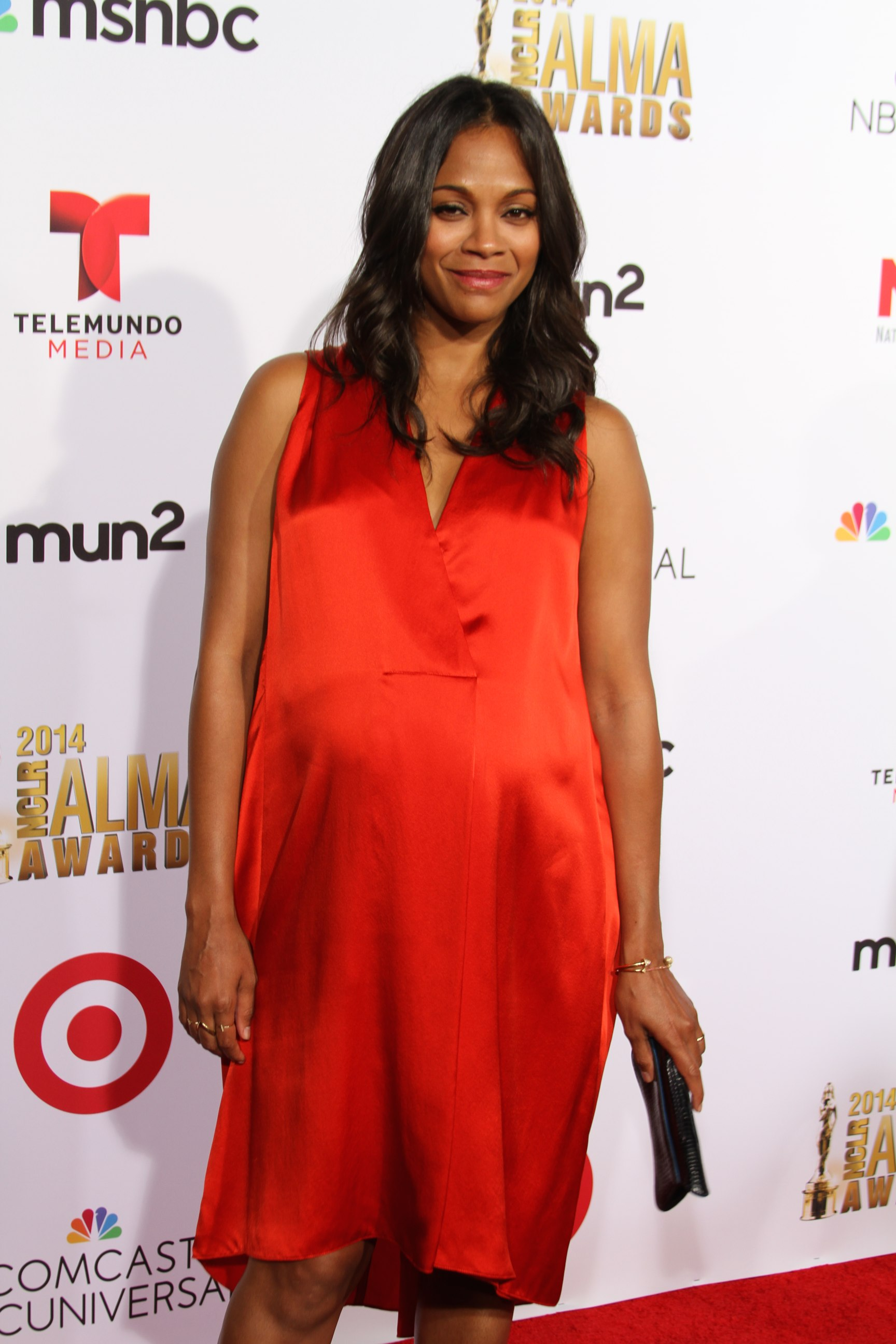 Actress Zoe Saldana at the 2014 Alma Awards